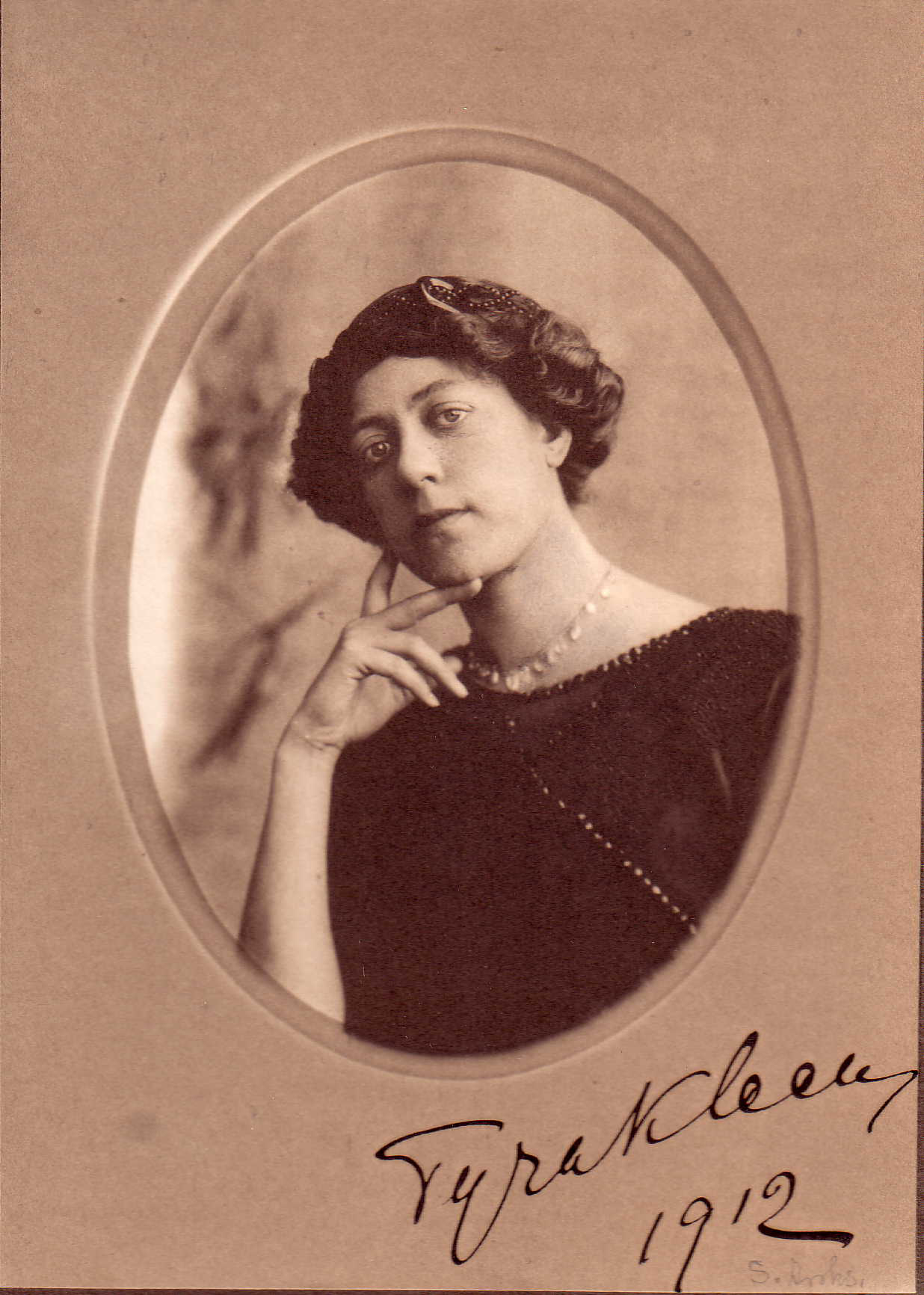 Photograph of the Swedish painter Tyra Kleen.